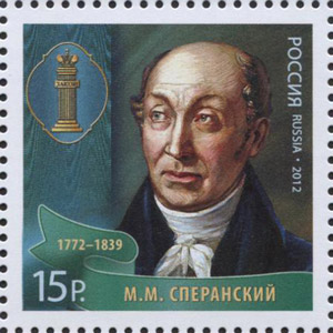 Выдающиеся юристы России 3